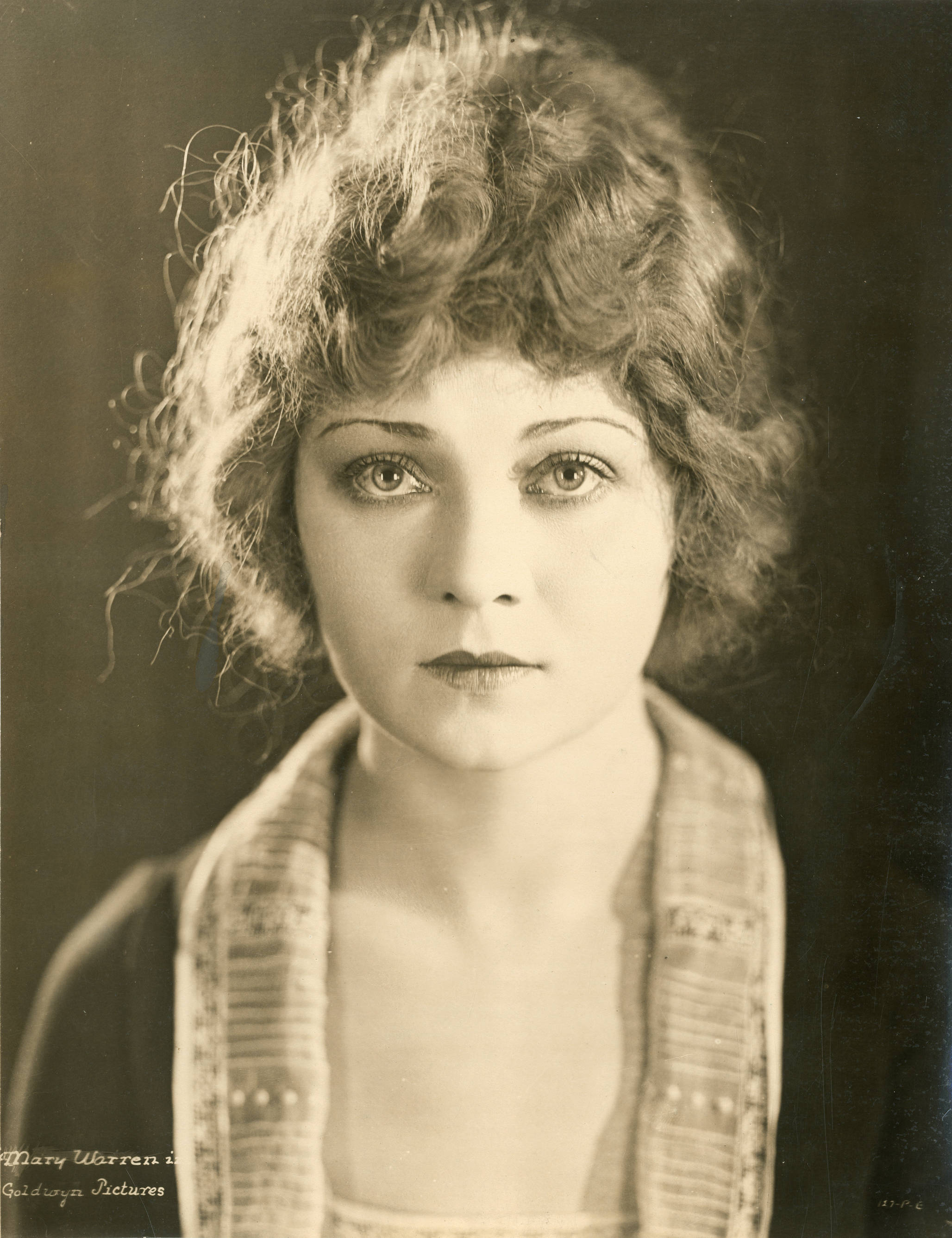 Mary Warren, silent film actress, from the American film Guile of Women (1920) Subjects: actresses